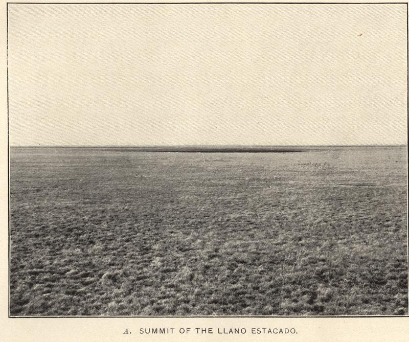 Summit of the Llano Estacado.